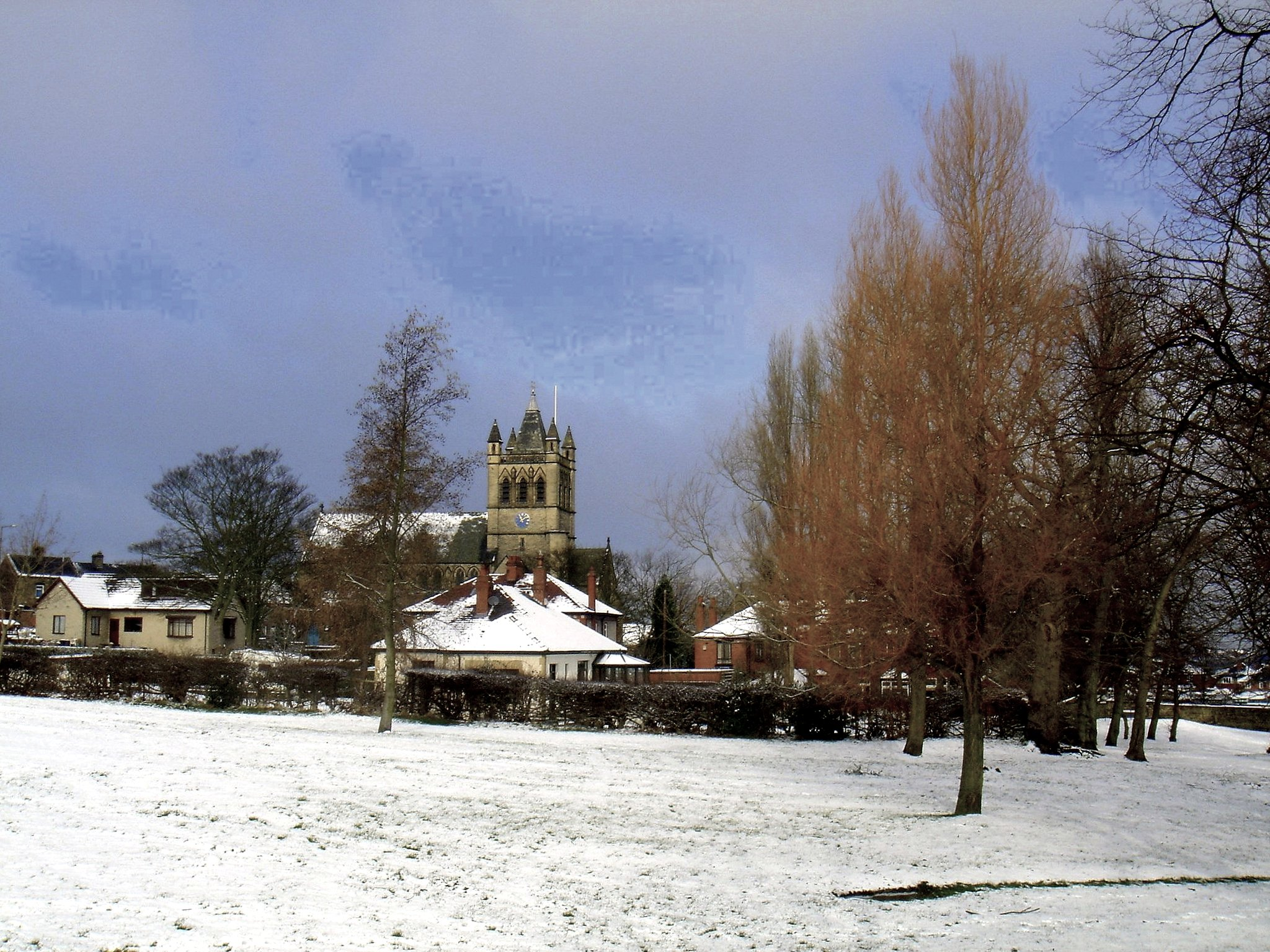 Kingstone, Barnsley, South Yorkshire, with the tower of St Edward the Confessor's parish church